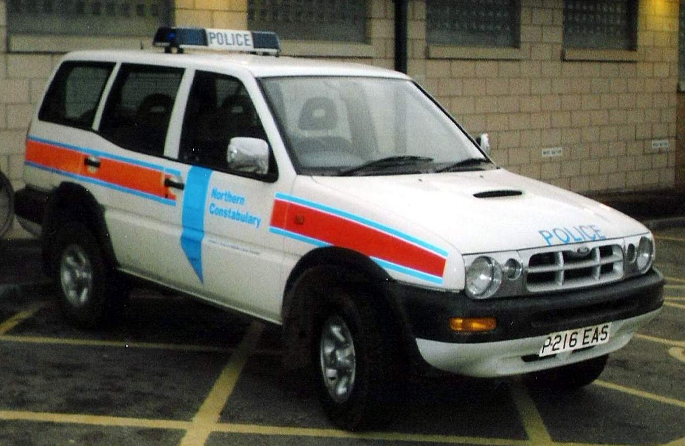 Photograph taken in 2002. One of the original instances of the revised livery - albeit retaining the former orange stripe. Ford Maverick (re-badged Nissan Terrano) getting a bit long in the tooth, having been around since 1996 when the new livery came in.